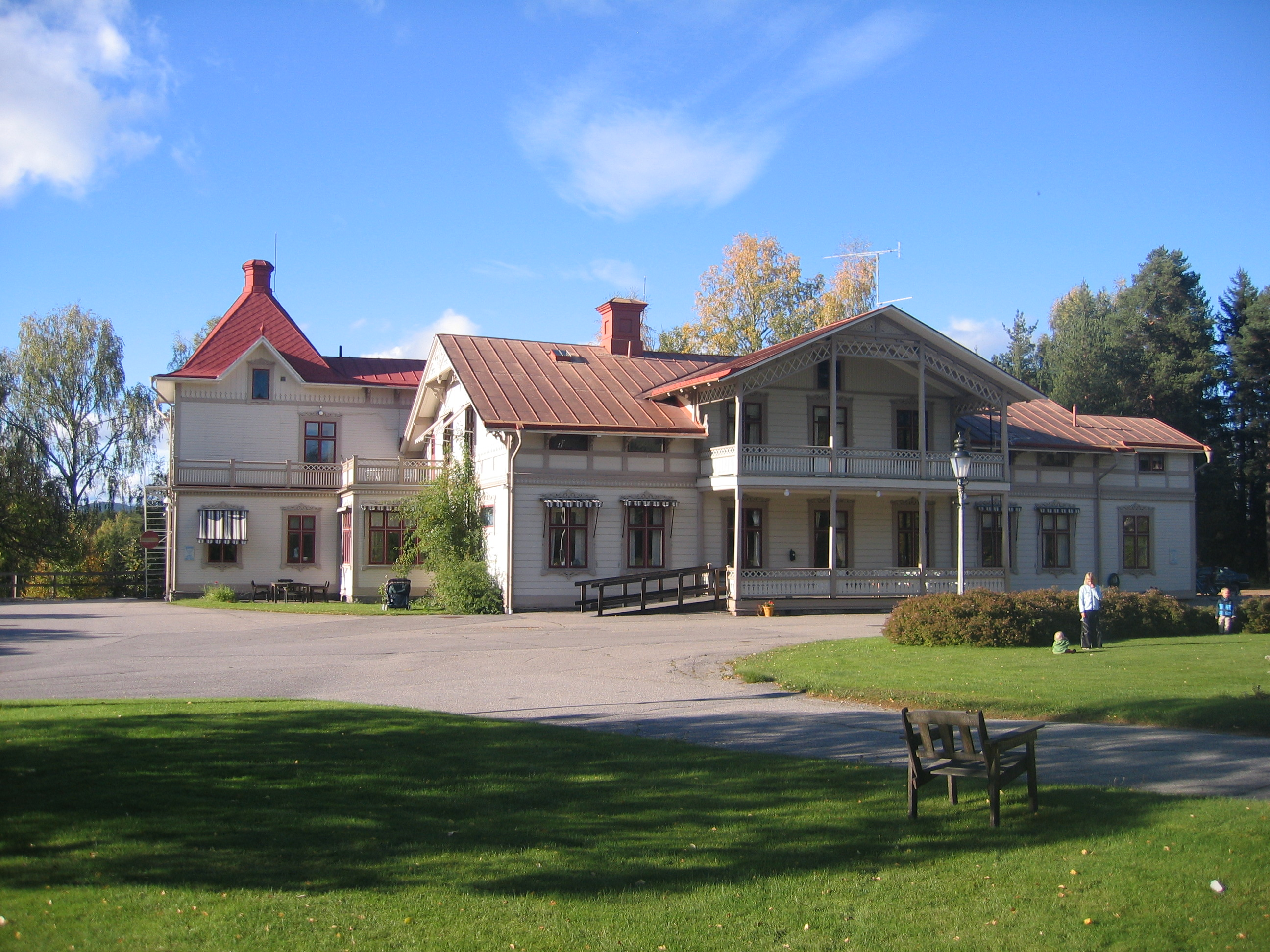 Historic Borrgarden, located in Ljusdal, built in the late 1700's. It is a bed and breakfast today and more information can be found at